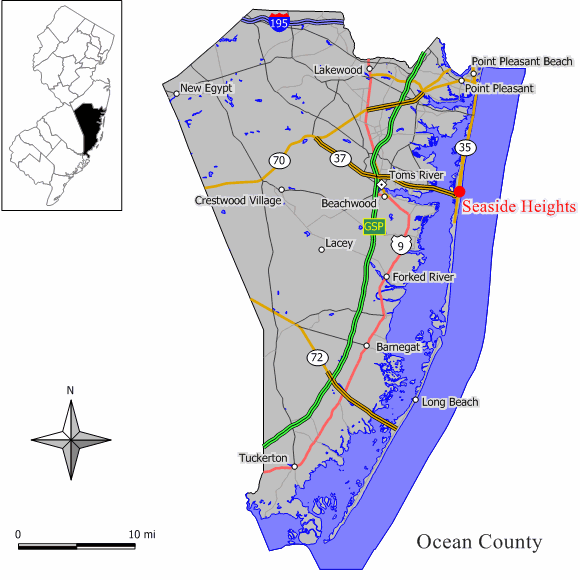 Source: Jim Irwin Original work by Jim Irwin, December 2005.